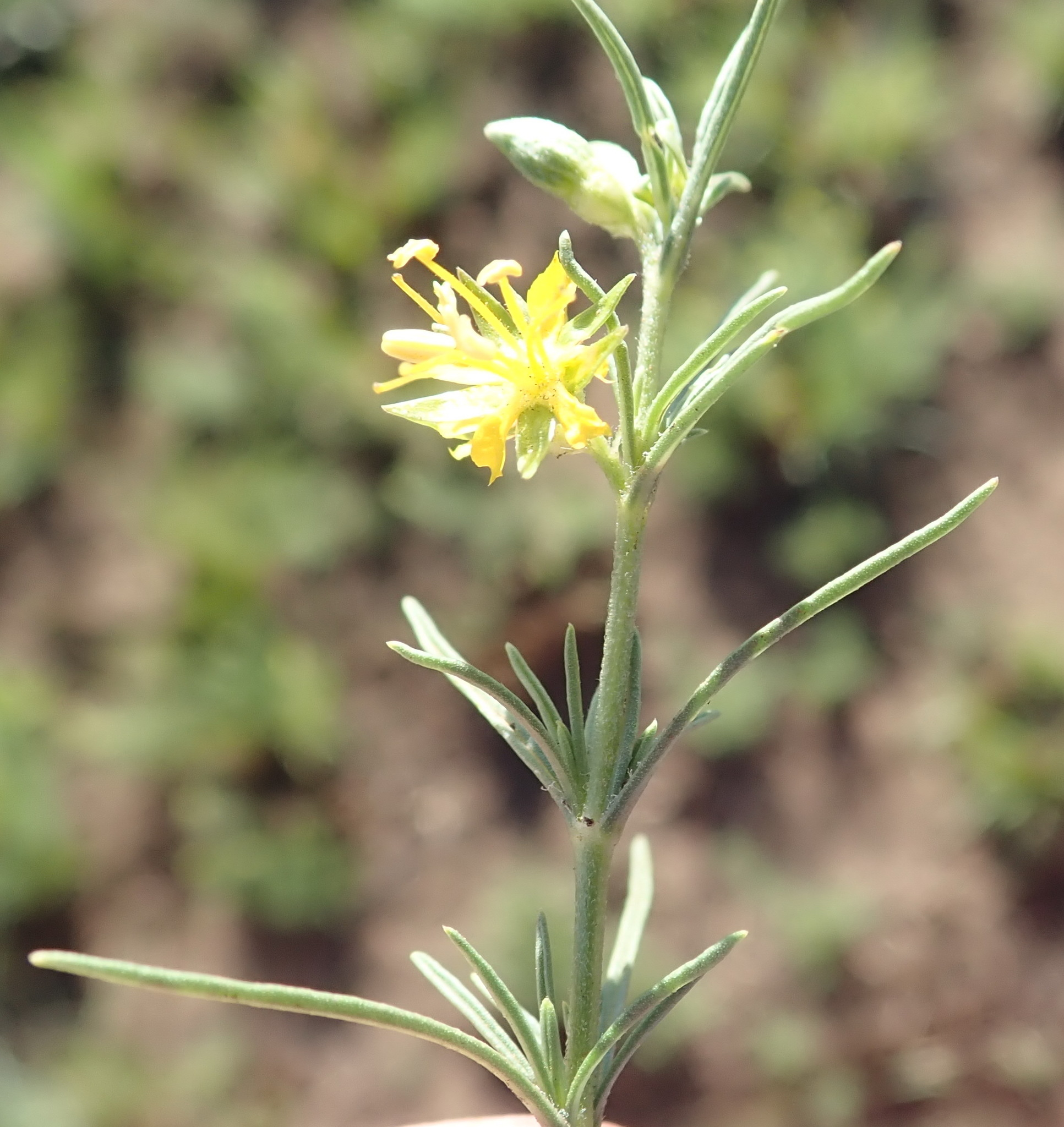 Roderick Hill, Bayswater, Bloemfontein This media file is part of an observation on iNaturalist: tag does not indicate the copyright status of the attached work. A normal copyright tag is still required. See Commons:Licensing.